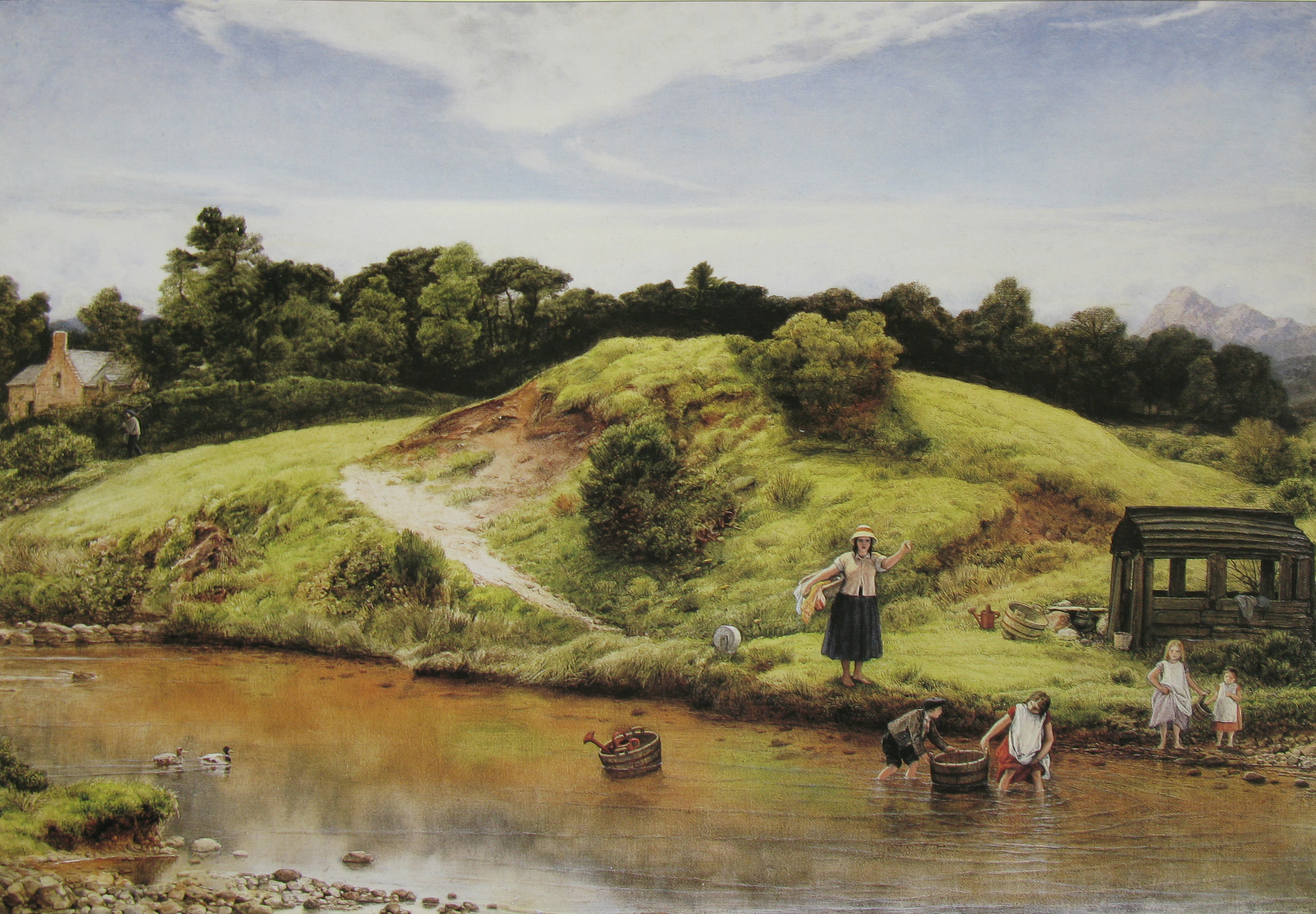 A Scene in Arran; Oil on board, 35.3 x 50.5 cm